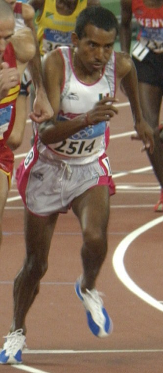 David Galvan at the 2004 Olympics.